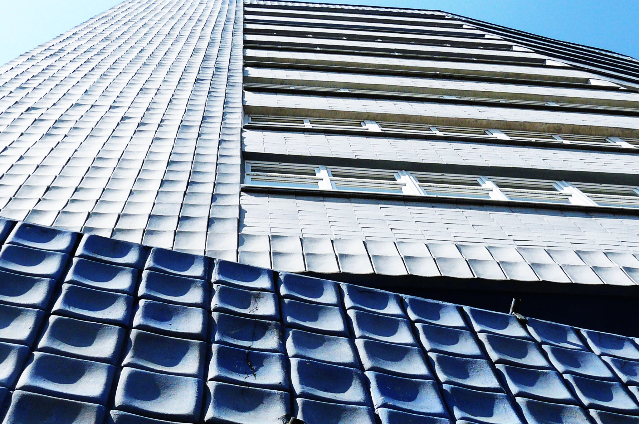 Tiles detail of: Pirelli Tower — Poznan Building — Ceramical Society Tower; in Poland.